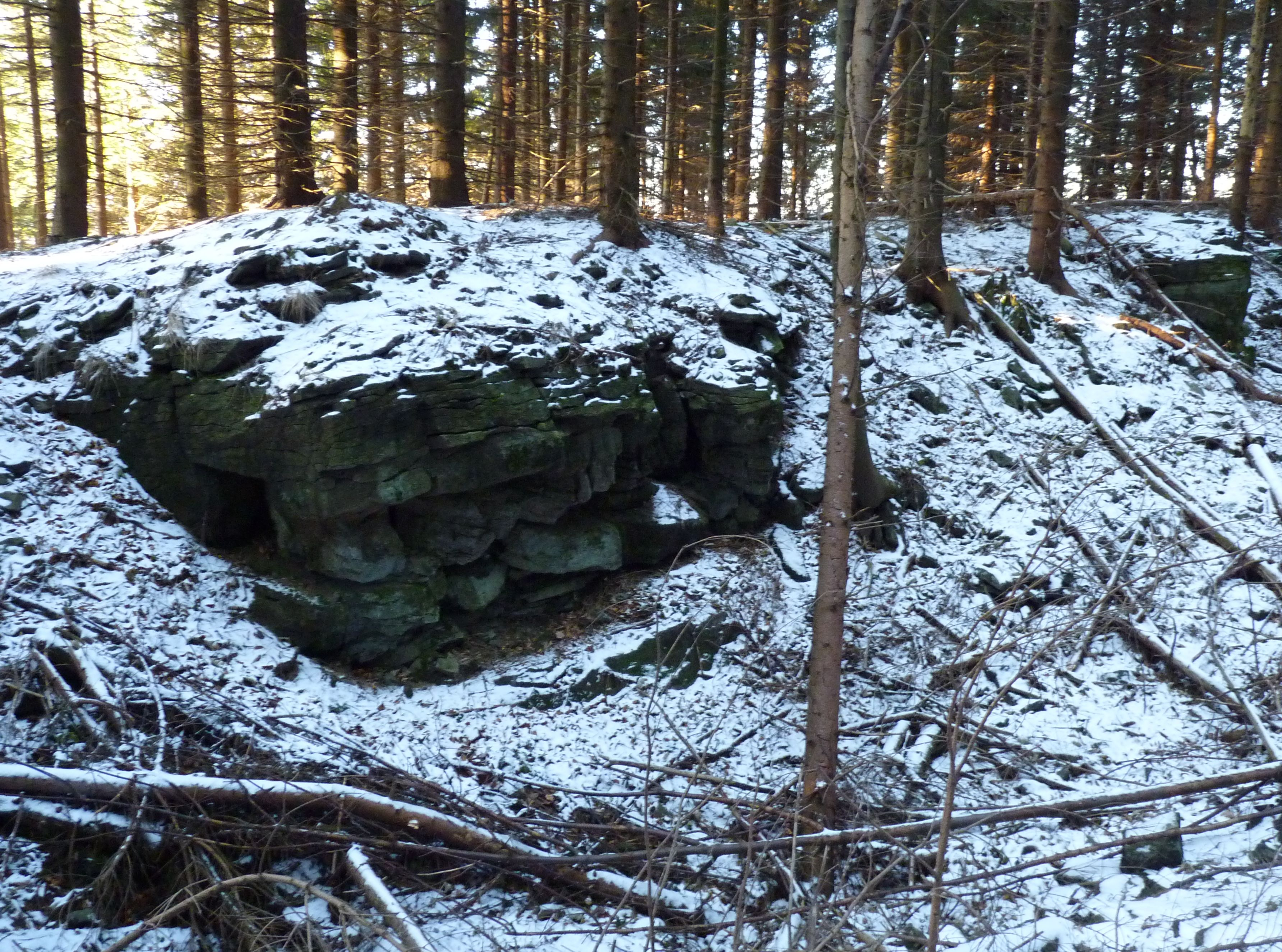 Ondrášovy díry, natural monument in Frýdek-Místek Dostrict, Czech Republic